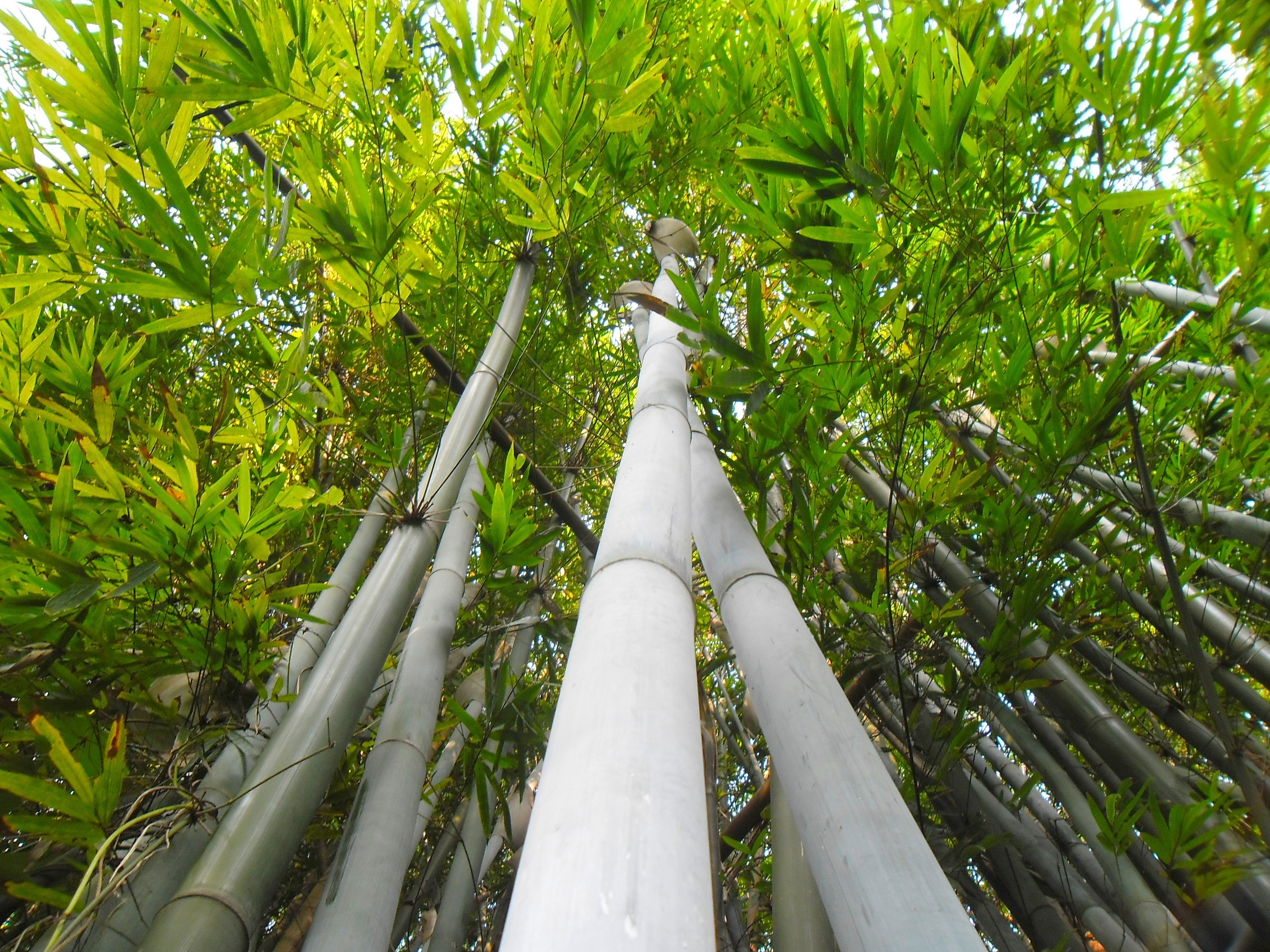 The Bambusa chungii Bamboo, with its beautiful white stem. Photographed by Earth100 on December 09, 2012.